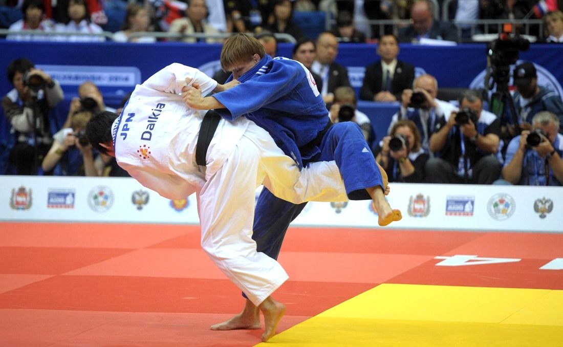 2014 World Judo Championships